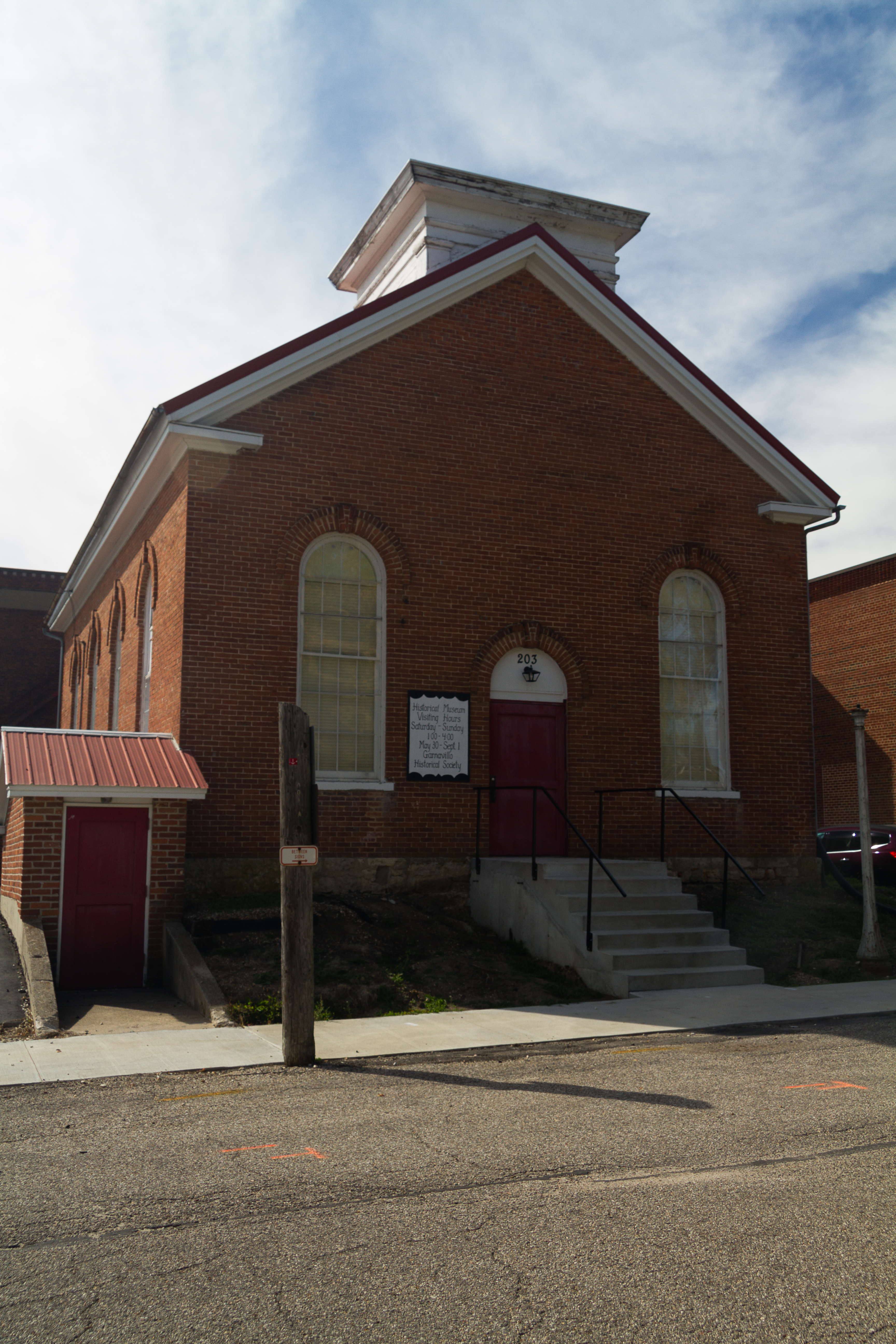 First Congregational Church, Garnavillo, Iowa, National Register of Historic Places